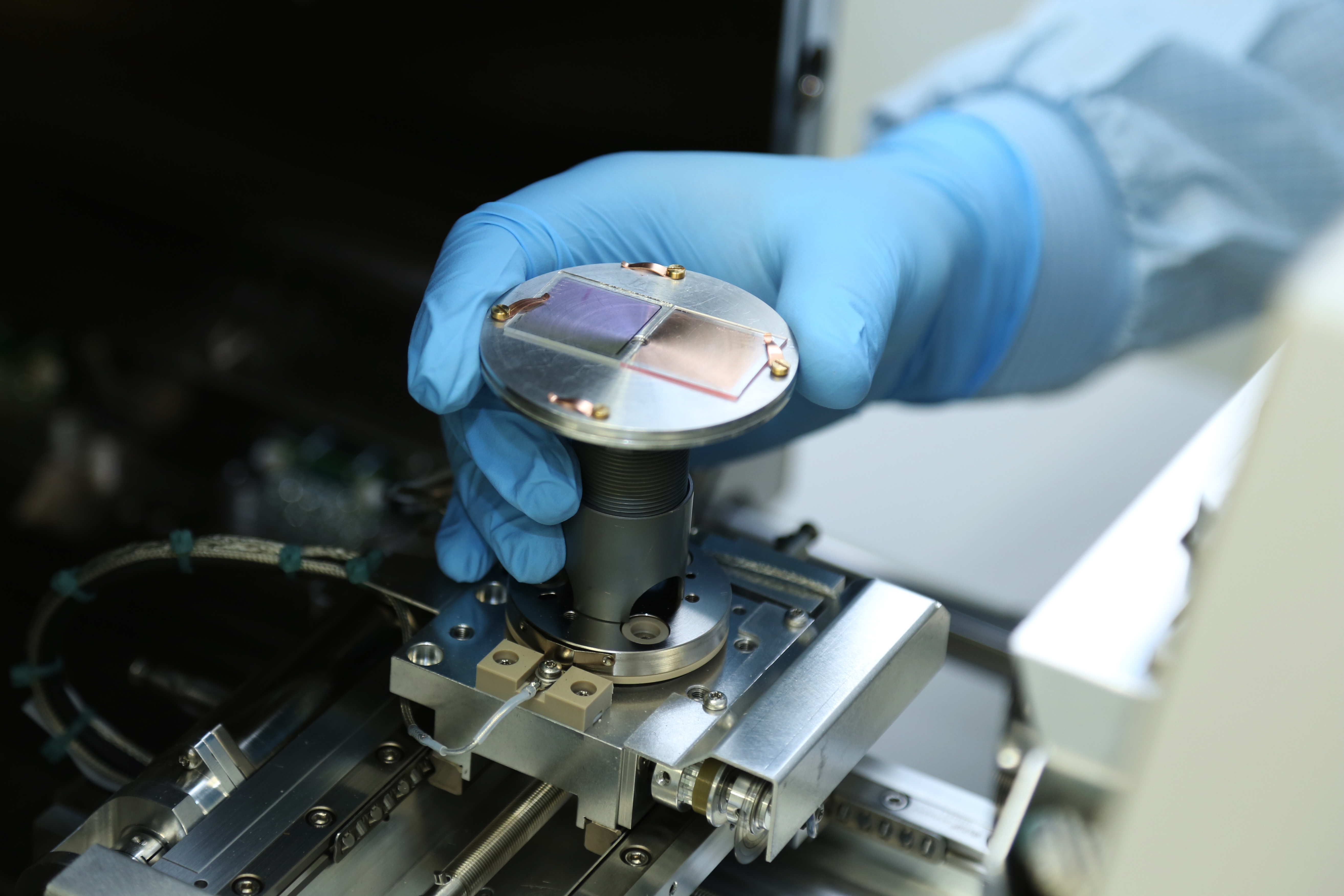 Image of optical biosenzor at Institute of Photonics and Electronics of the AS CR.